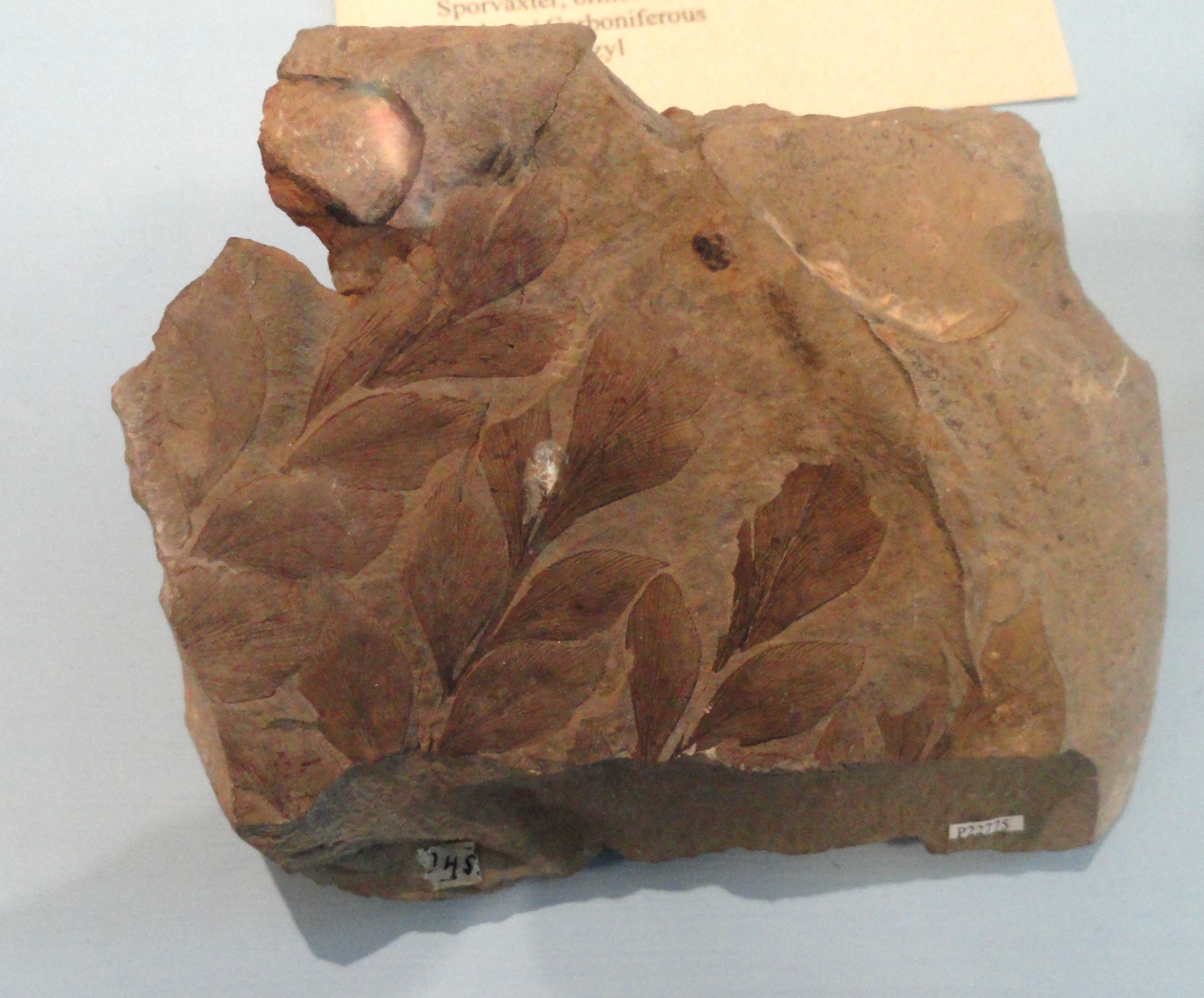 Cropped image of taxon in file name